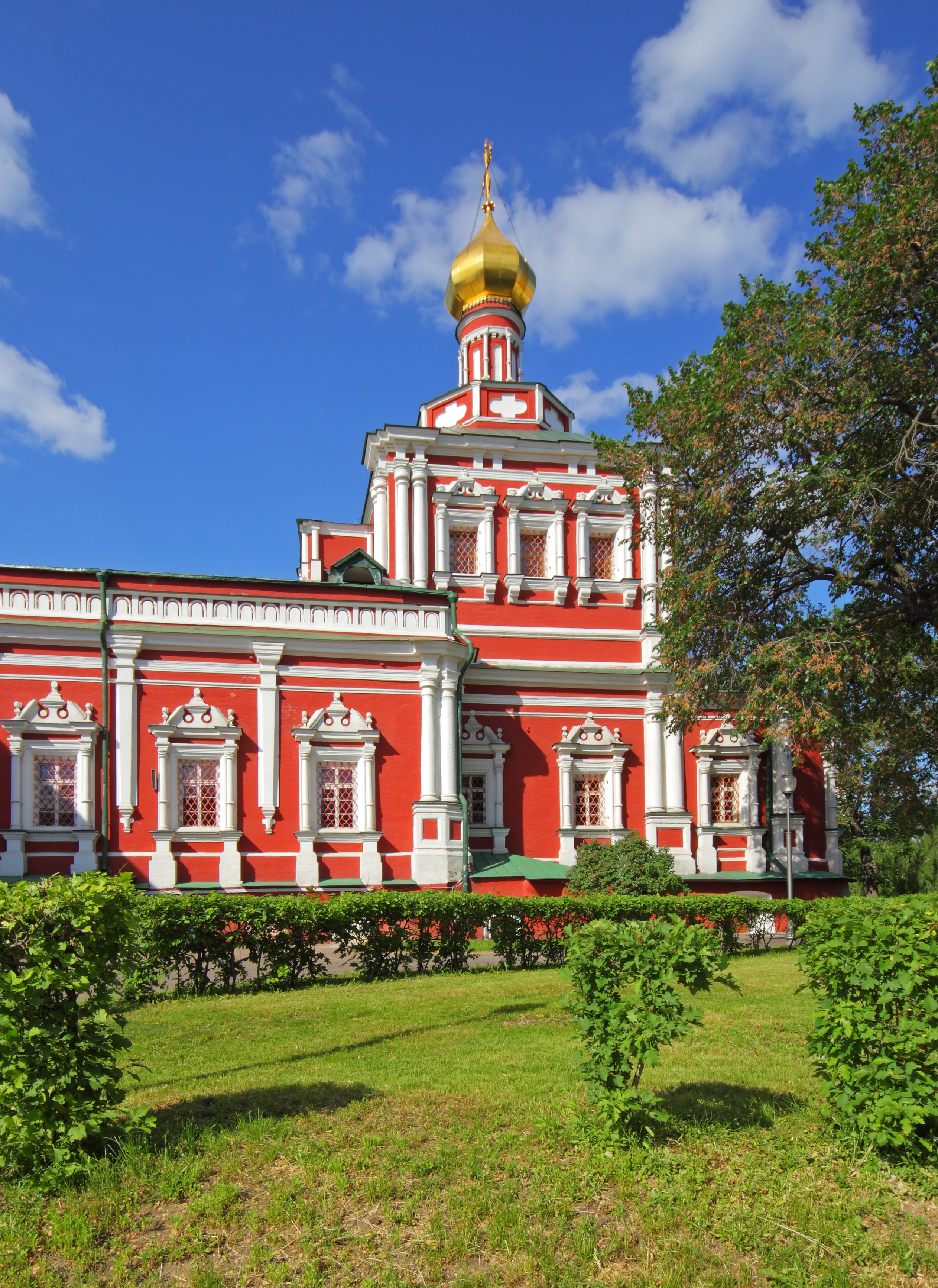 Moscow, Russia. Novodevichy Convent. Dormition Church.